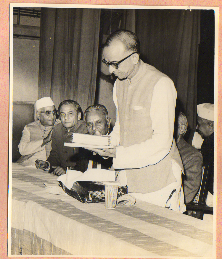 Standing: Gujarati poet Umashankar Joshi, Seating: Lalbhai Shah, Dhirubhai Thaker, Kanchanlal Parikh, On events of 'Jaybhikhkhu Smritigranth Vimochan'